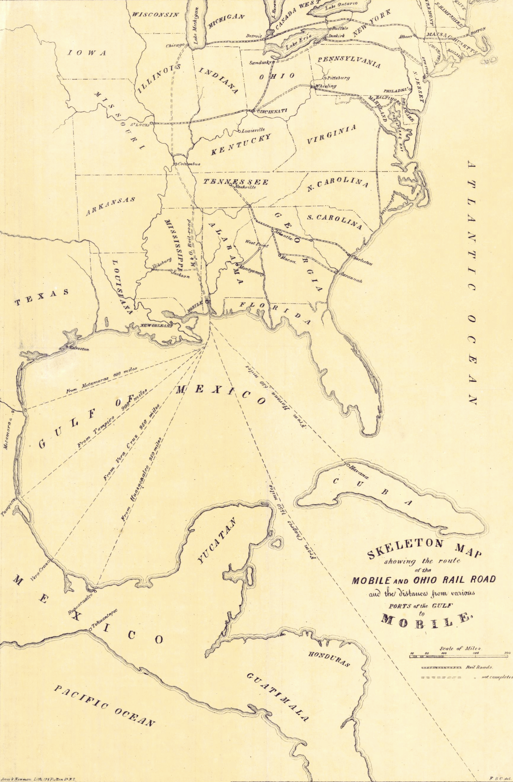 Skeleton Map Showing the Route of the Mobile and Ohio Railroad and the Distances from Various Ports of the Gulf to Mobile (Alabama).